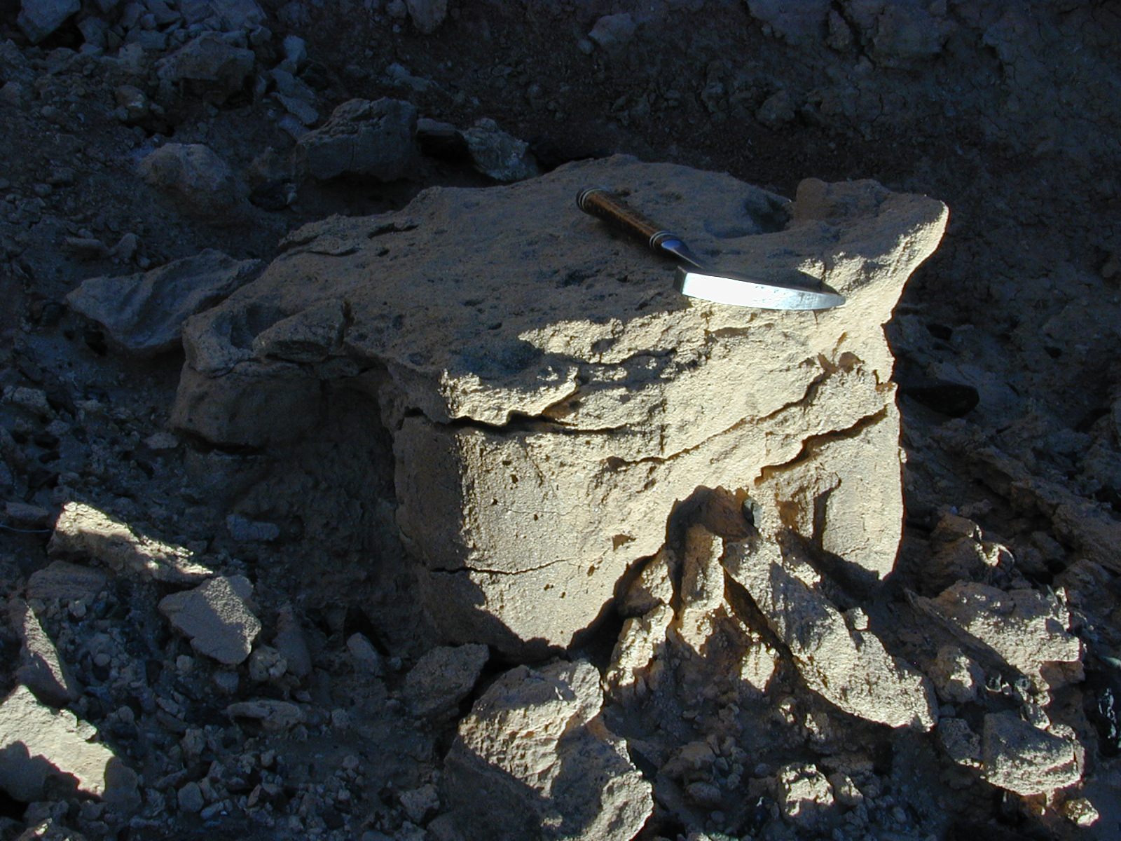 Footprint of Opisthocoelicaudia found in the Nemegt Formation in Mongolia in 2002 by prof. Currie